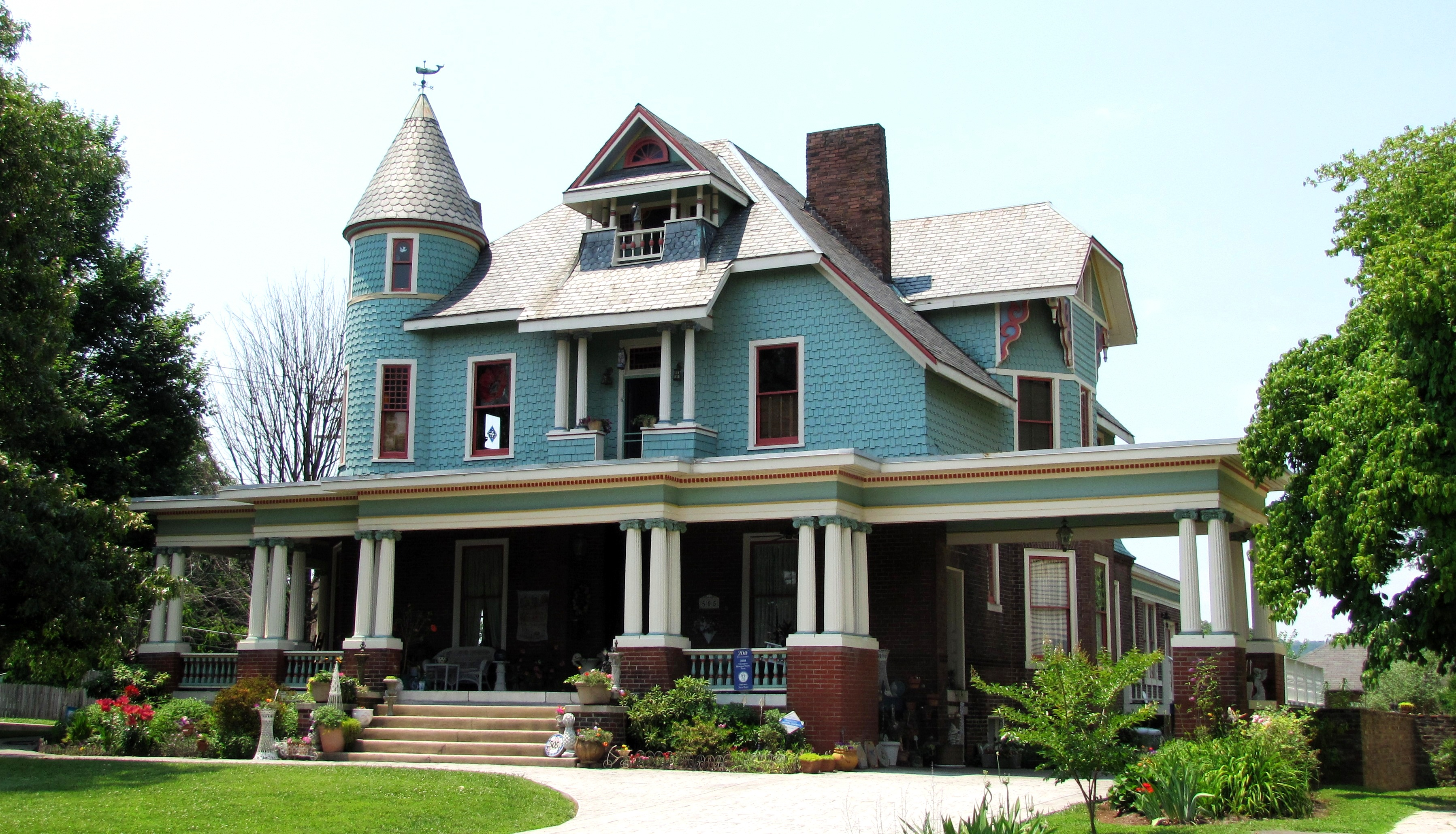 Lou-Mar (505 E. Scott Ave.), built by Swiss-born architect David Getaz in 1889, in Knoxville, Tennessee, USA. This house is listed as a contributing property in the NRHP-listed Old North Knoxville Historic District.